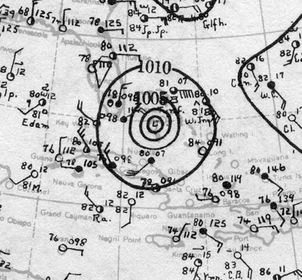 Surface weather analysis of the 1929 Bahamas hurricane tracking through the Bahamas at 1300 GMT on September 25, 1929.